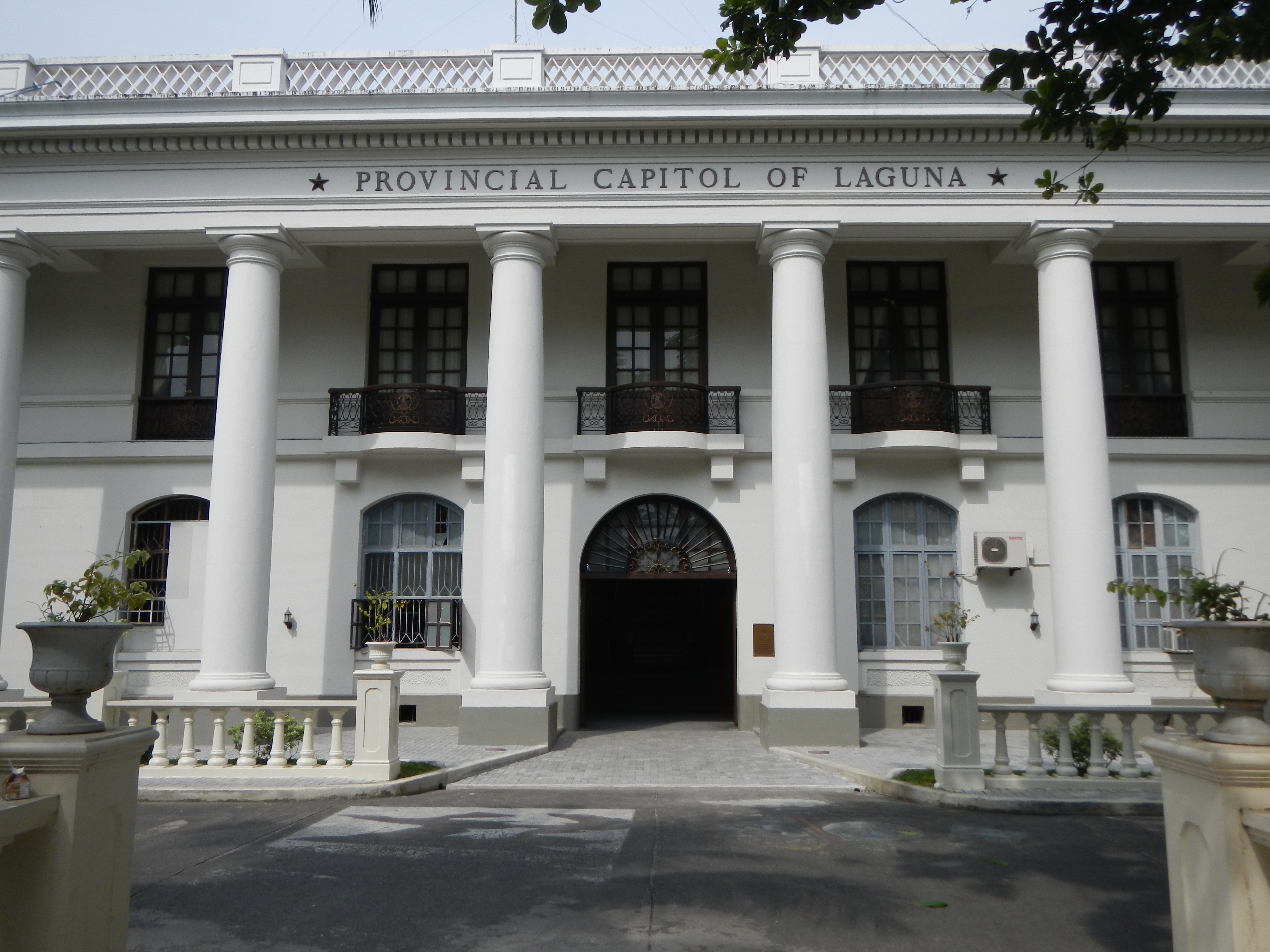 UploadWizard photos -- (General description) -- of -- Laguna Provincial Capitol[1] [2] Coordinates: 14°16'35"N 121°25'3"E [3] Website -- Santa Cruz, Laguna[4] (a first class urban municipality in the province of Laguna,[5]Philippines, the capital town of the province of Laguna, latest census, it has a population of 101,914 people in 19,627 households, situated on the banks of the Santa Cruz River[6] which flows into the eastern part of Laguna de Bay[7] politically subdivided into 26 barangays.Website [8] Coordinates: 14°15'8"N 121°24'15"E)